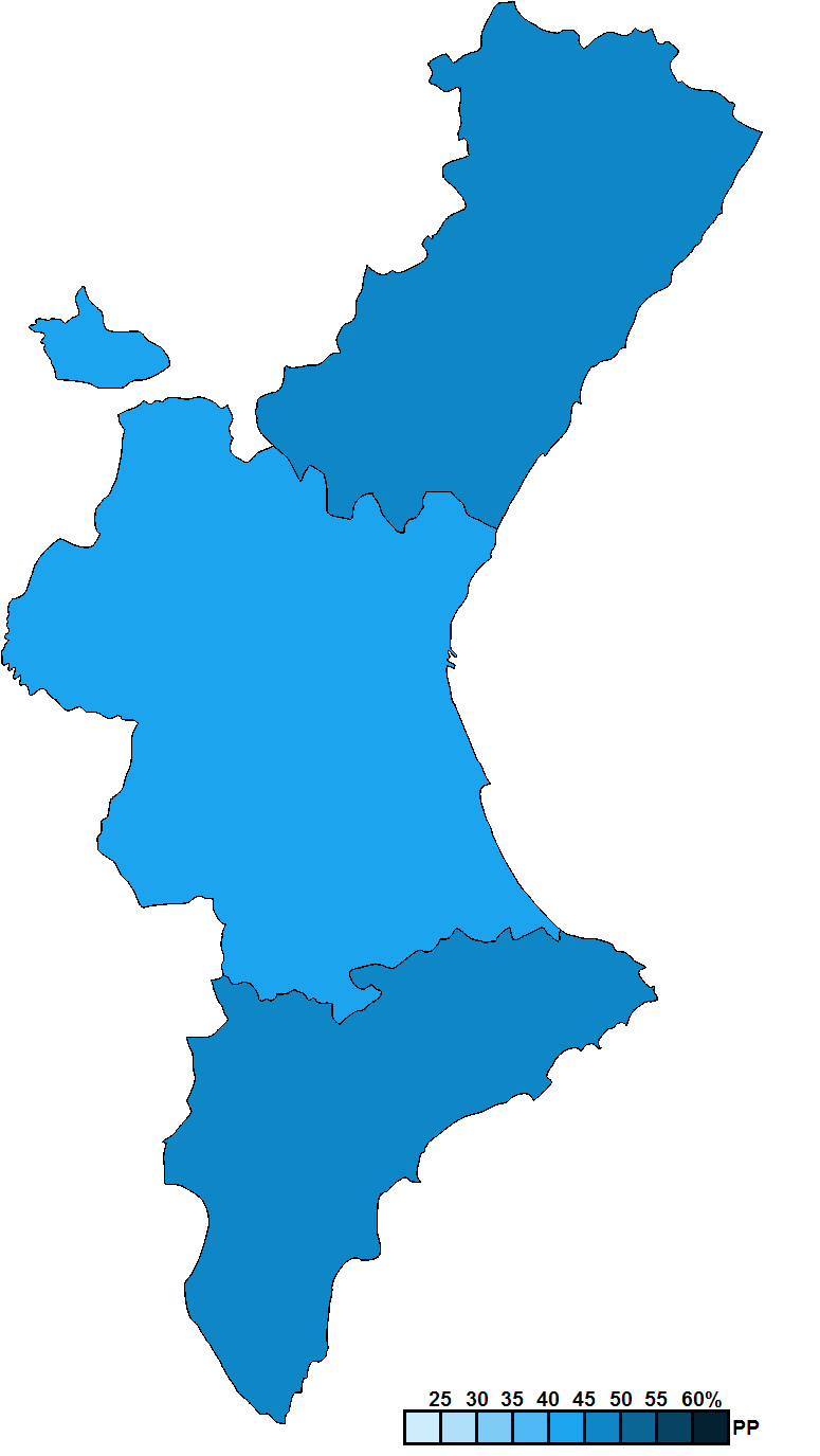 Provincial results for the 1995 Valencian regional election.